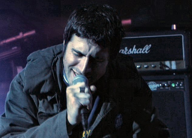 Welsh singer-songwriter Gruff Rhys performing Dial: Revenge live with Mogwai on the Isle of Bute in 2001